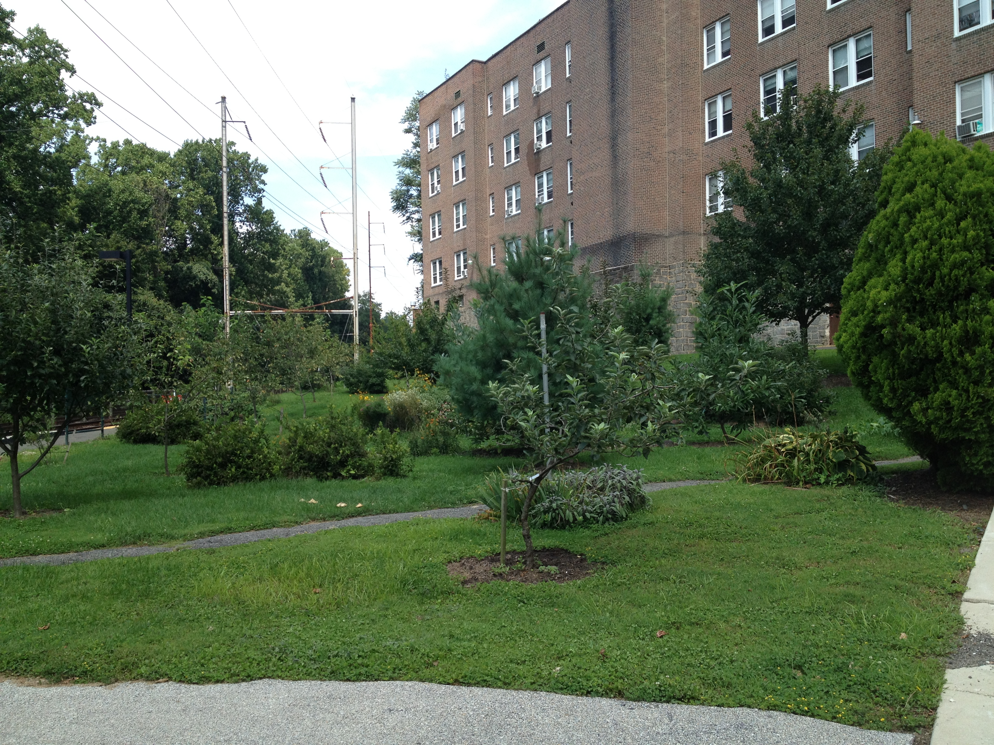 View of the garden looking towards the outbound track. Tulpehocken Apple is in the foreground.